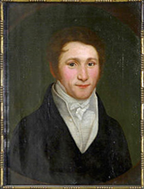 Portrait of Johann Heinrich Viereck (1780-1851), later Oberappellationsgerichtsvizepräsident in Rostock